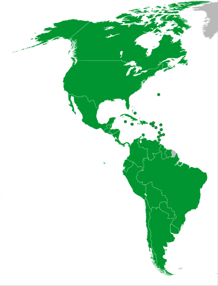 This map shows the 41 Participating Countries at the 2015 Pan American Games and onwards.